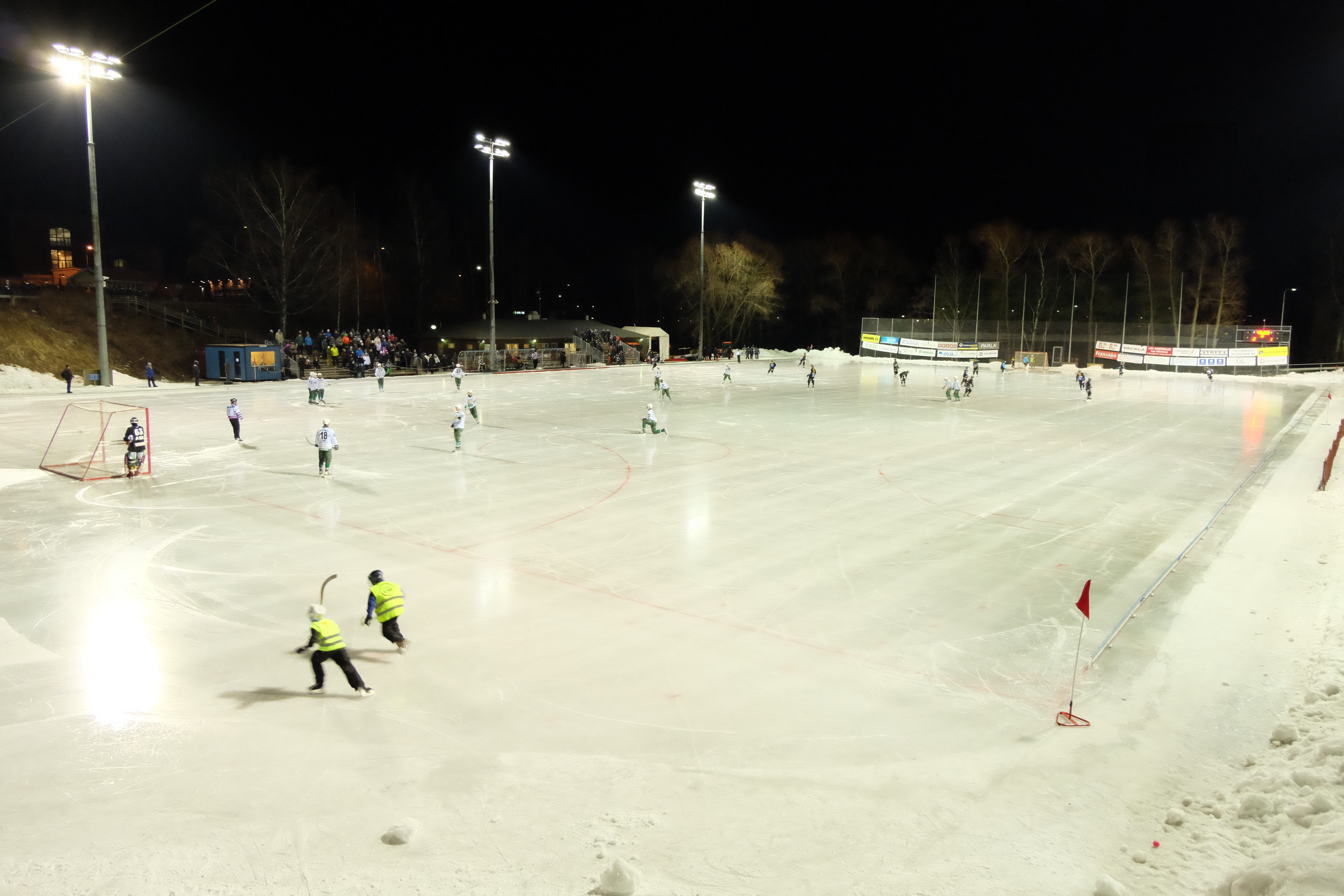 Hänninhauta, or colloquially Hänski, is a sports field in Mikkeli, Finland, in a bottom of a kettle hole. It is used for bandy (pictured), pesäpallo and football.